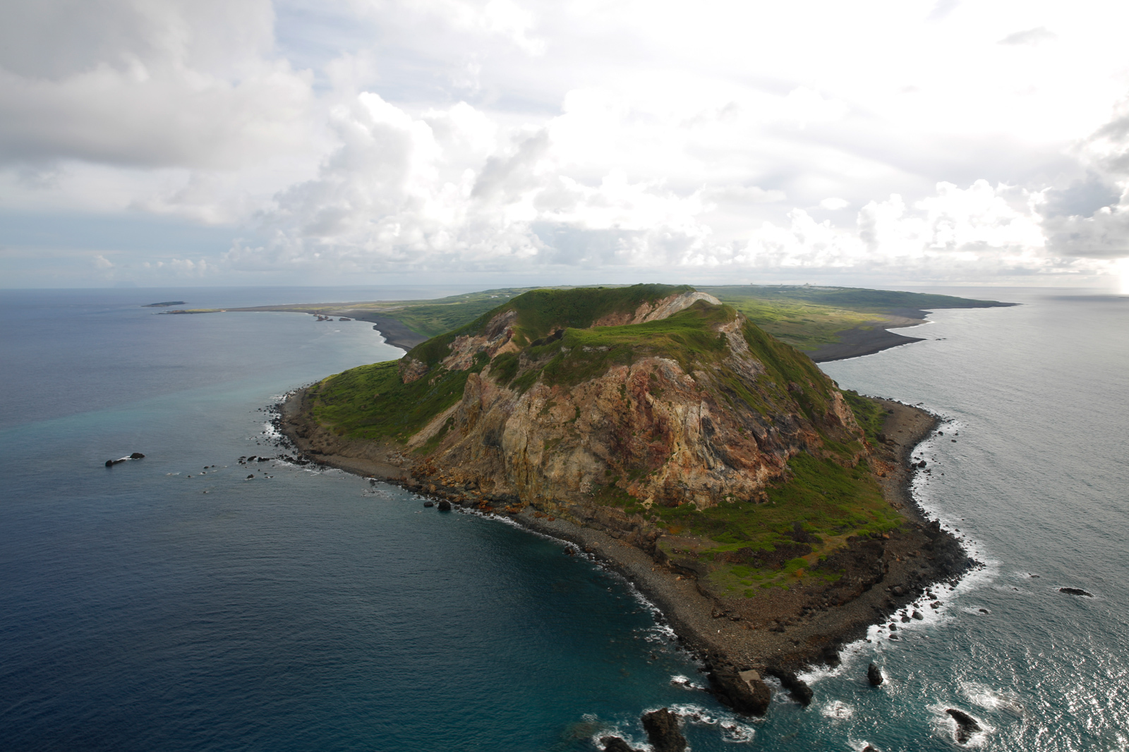 Mt. Suribachi, Iwo To, Aug. 16, 2014. (U.S. Marine Corps photo by Cpl. Jonathan R. Waldman/Released)